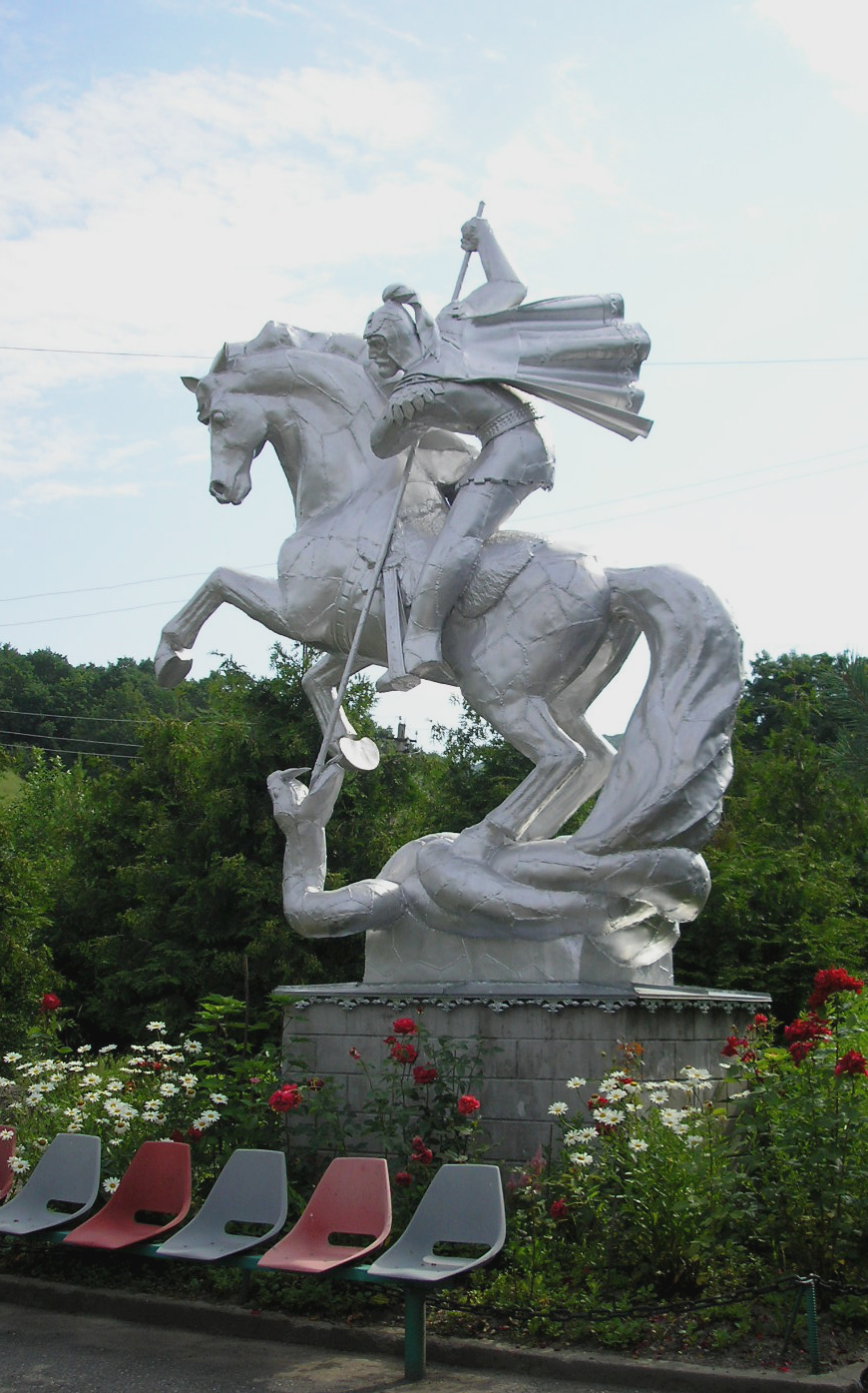 Statue of Saint George in North Ossetia